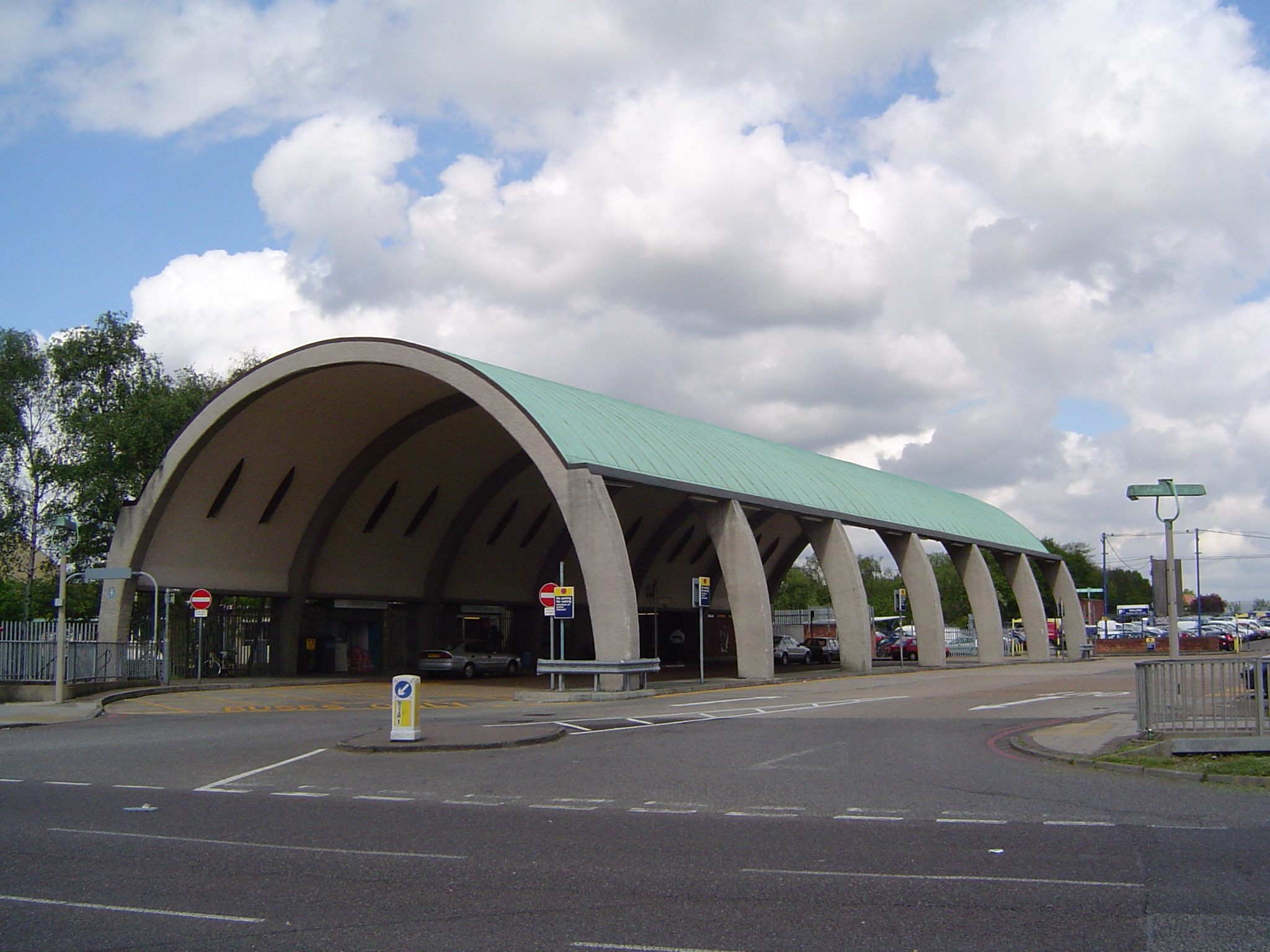 Newbury Park Tube station (bus station)